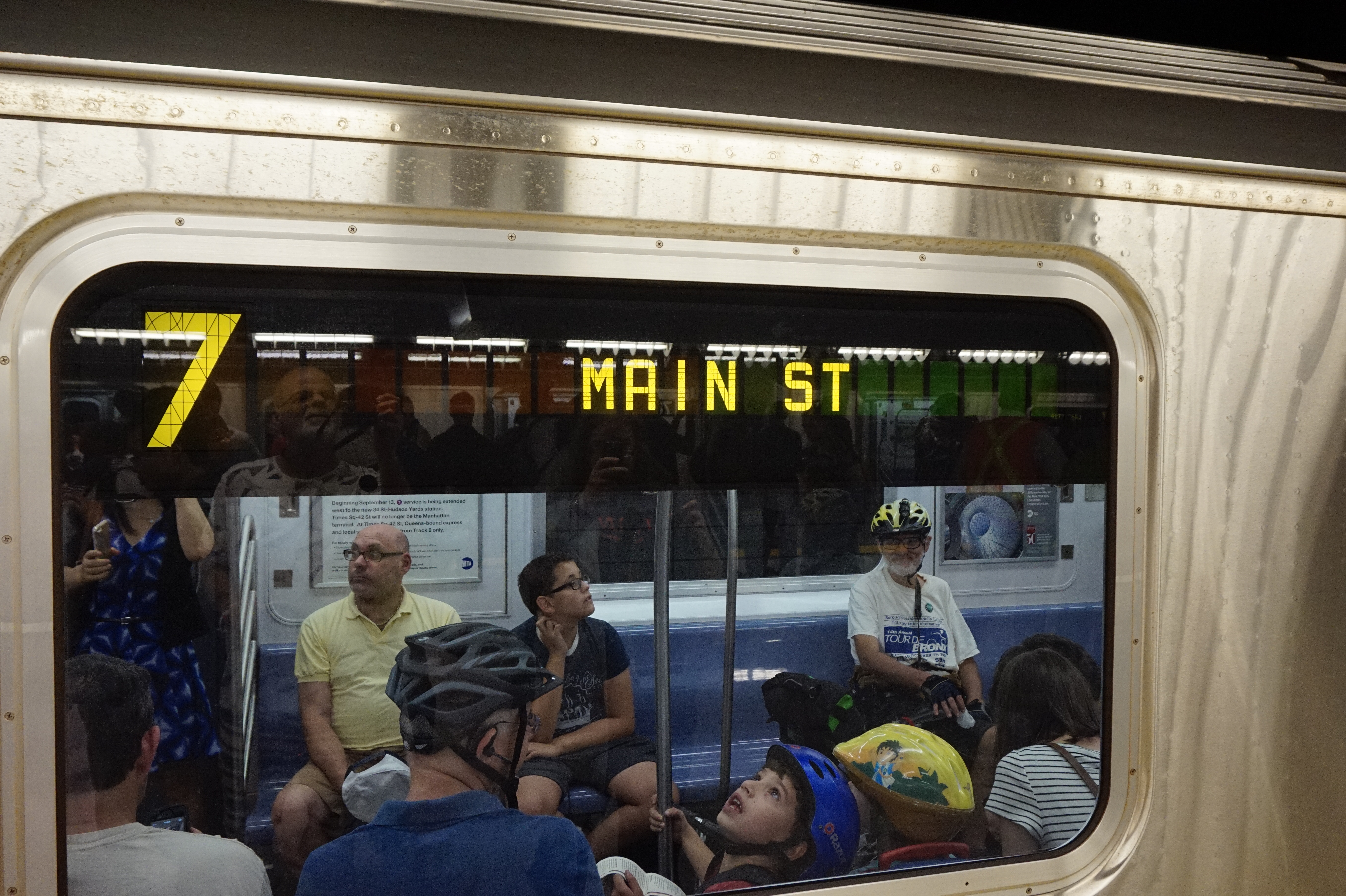 The First new subway station and section of line to open in 60 years.